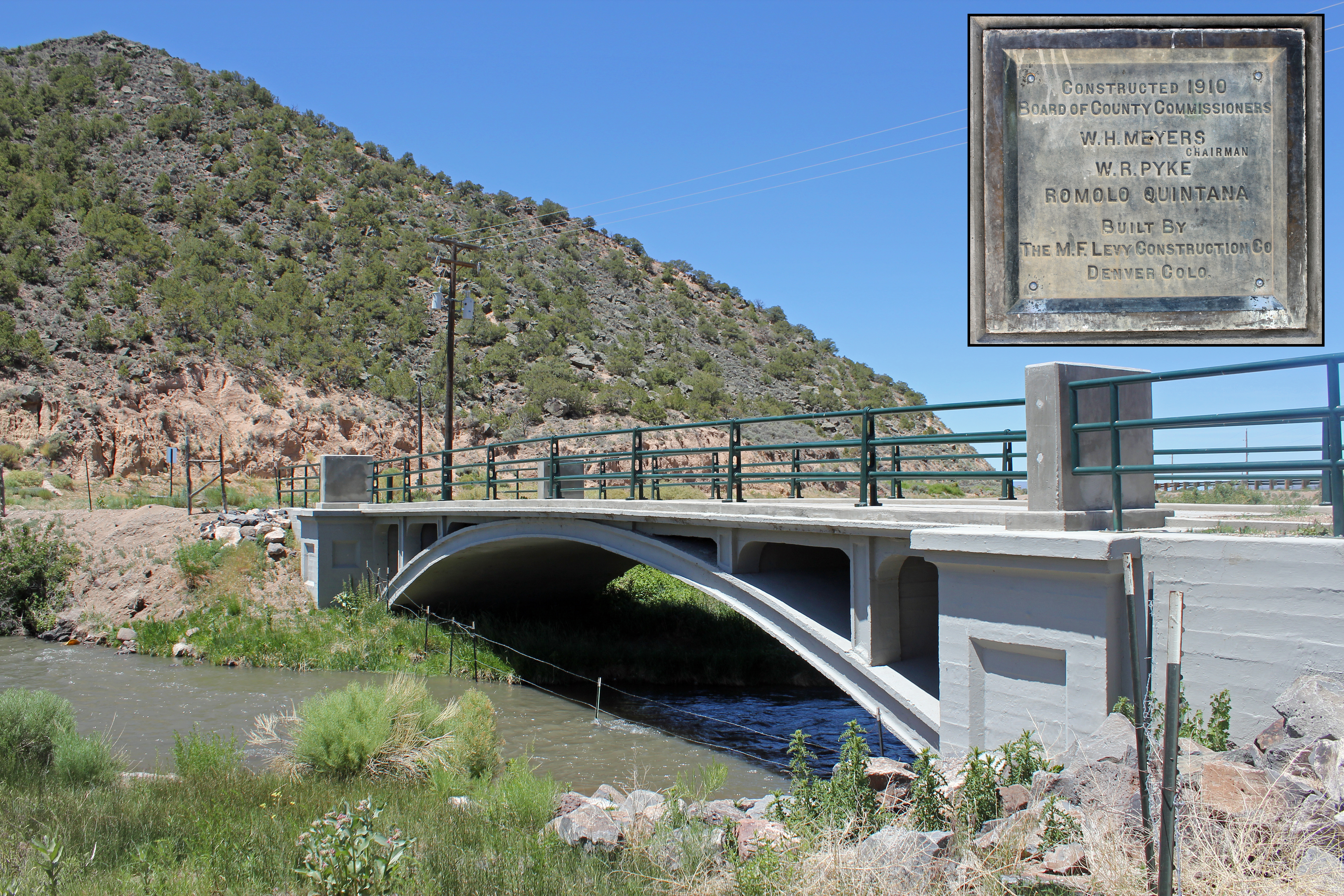 The San Luis Bridge in San Luis, Colorado. The inset shows the inscription that is on one of the uprights at the east side of the bridge. The property is listed on the National Register of Historic Places.